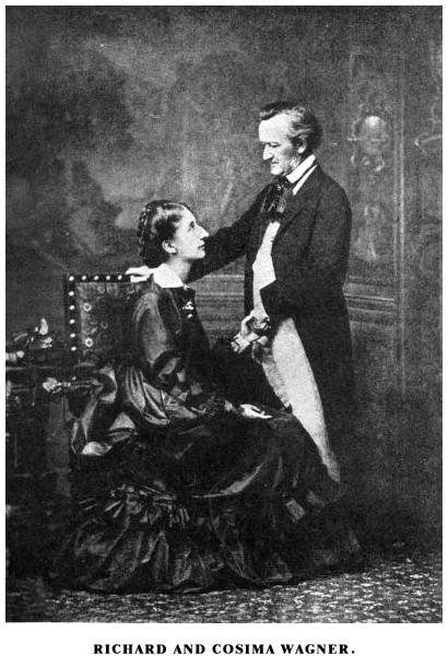 Original photo taken on 9th of May 1872 in Vienna by Fritz Luckhardt (1843-1894).